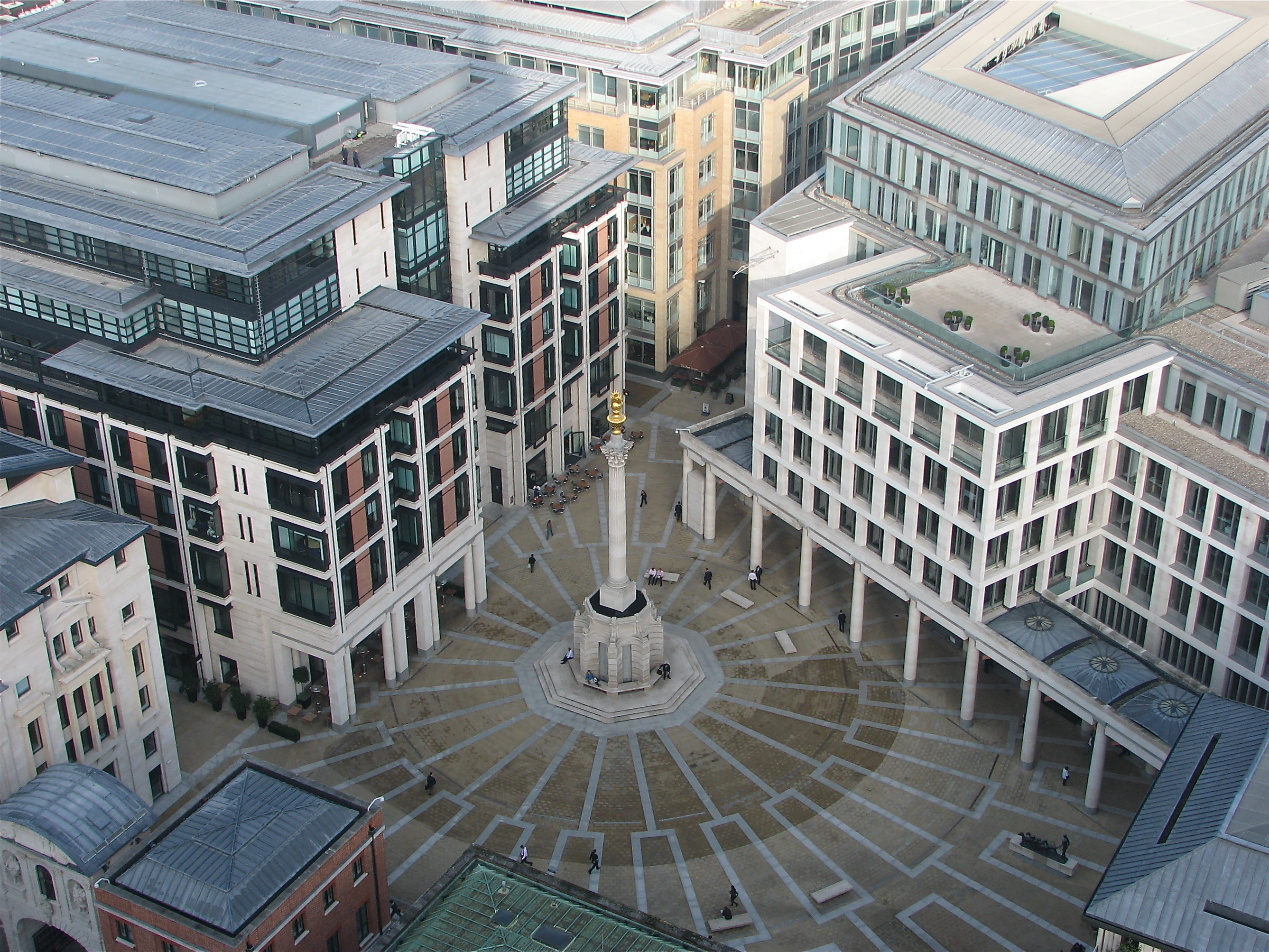 Paternoster Square in London, as seen from St. Paul's Cathedral.